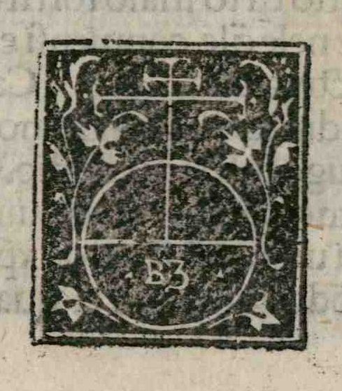 Zani's mark